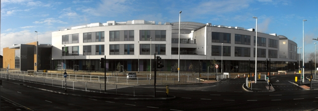 Blessed John Henry Newman RC College 10Nov12